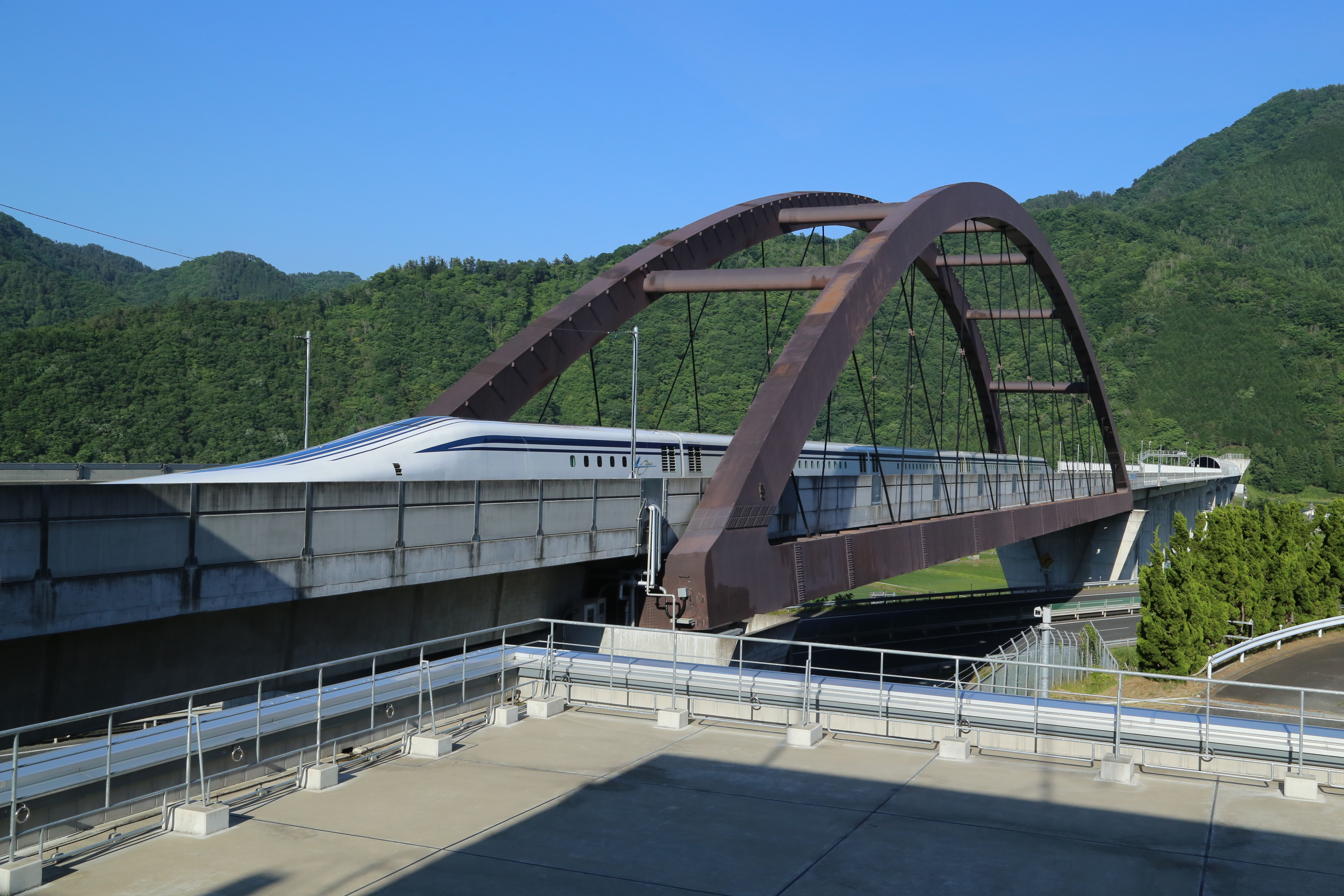 An L0 series maglev train undergoing testing on the Chuo Shinkansen test track in Yamanashi Prefecture, Japan